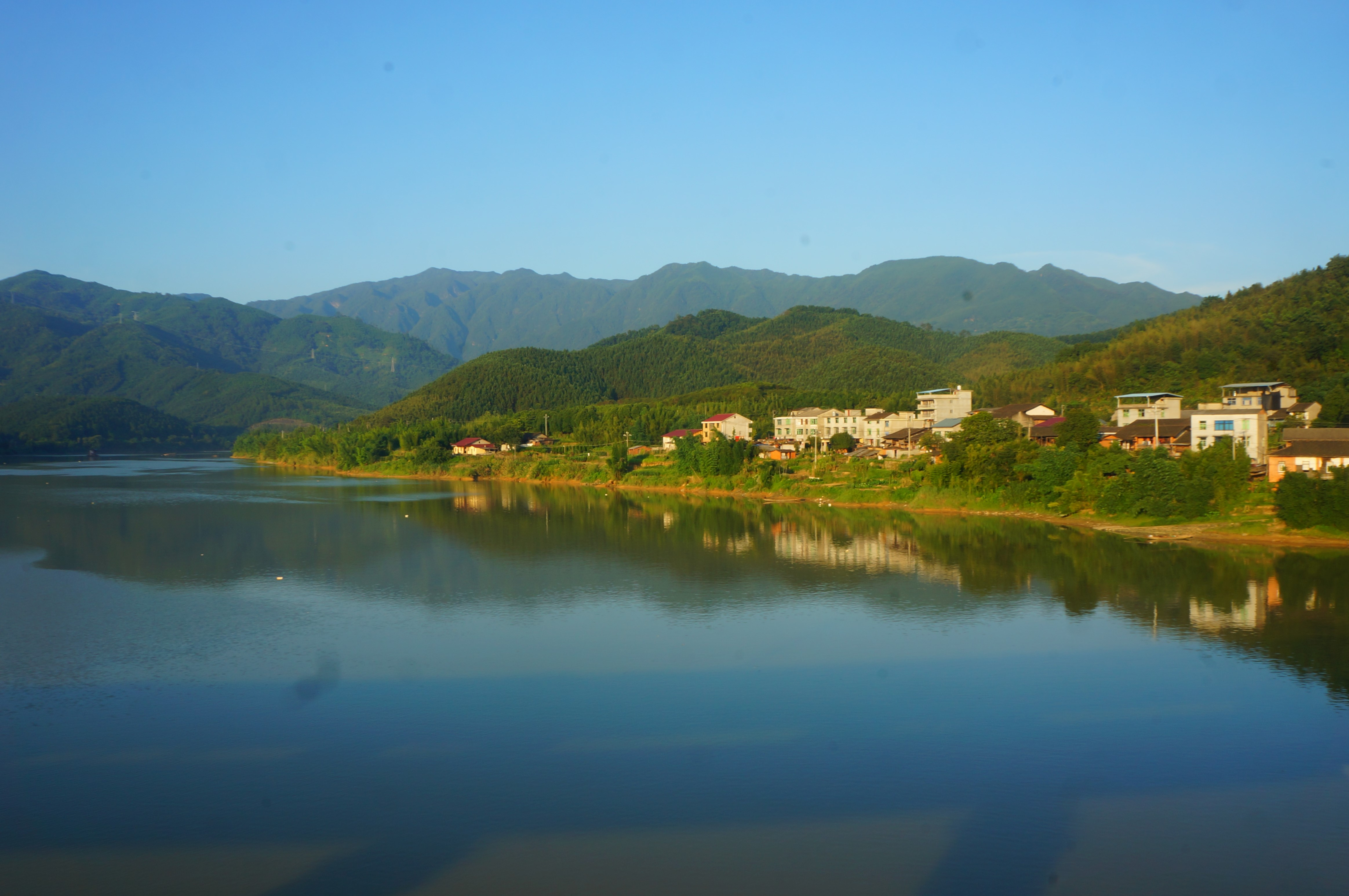 201806 Futun Brook in Laizhou